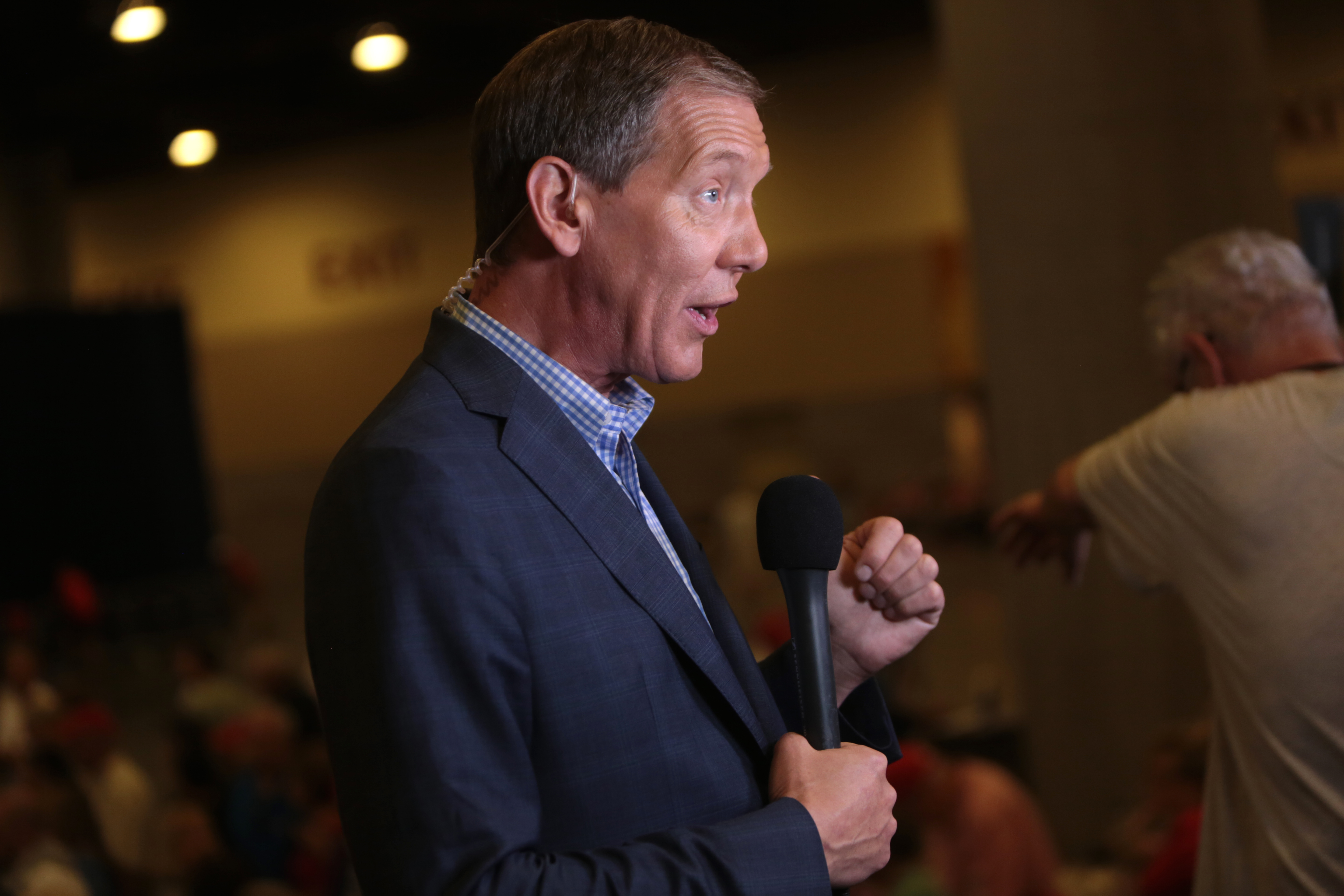 Carl Cameron at an immigration policy speech hosted by Donald Trump at the Phoenix Convention Center in Phoenix, Arizona.